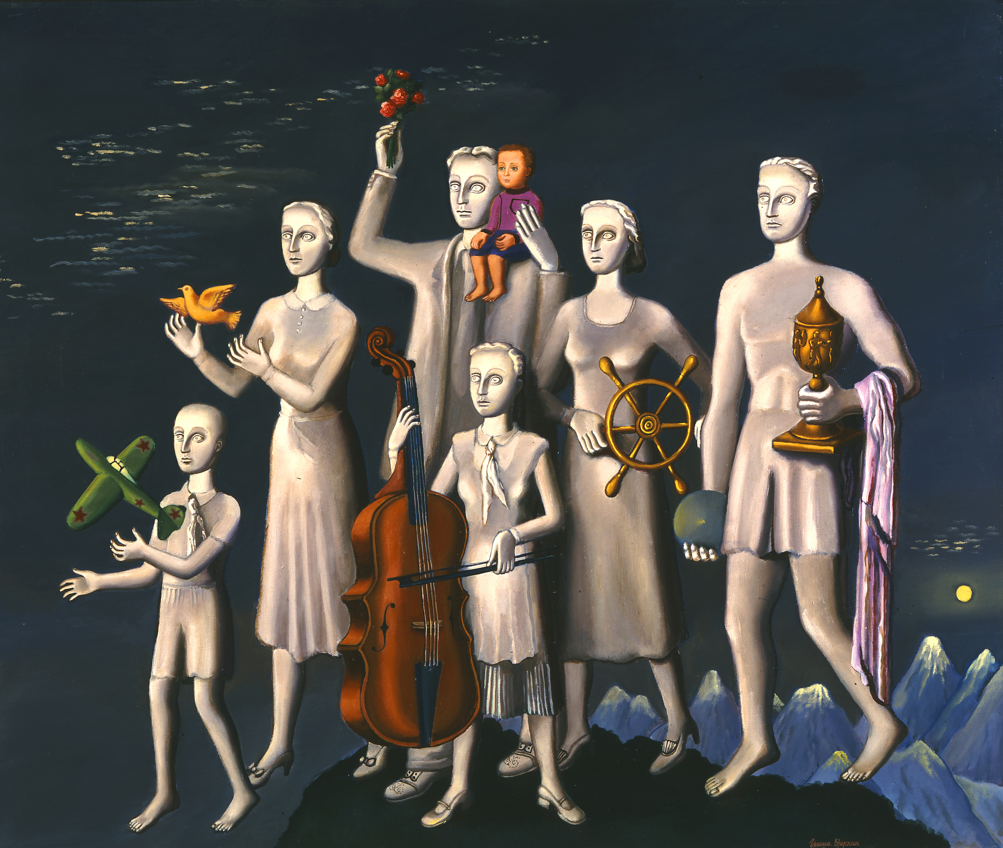 Monuments by Russian painter Grisha Bruskin.